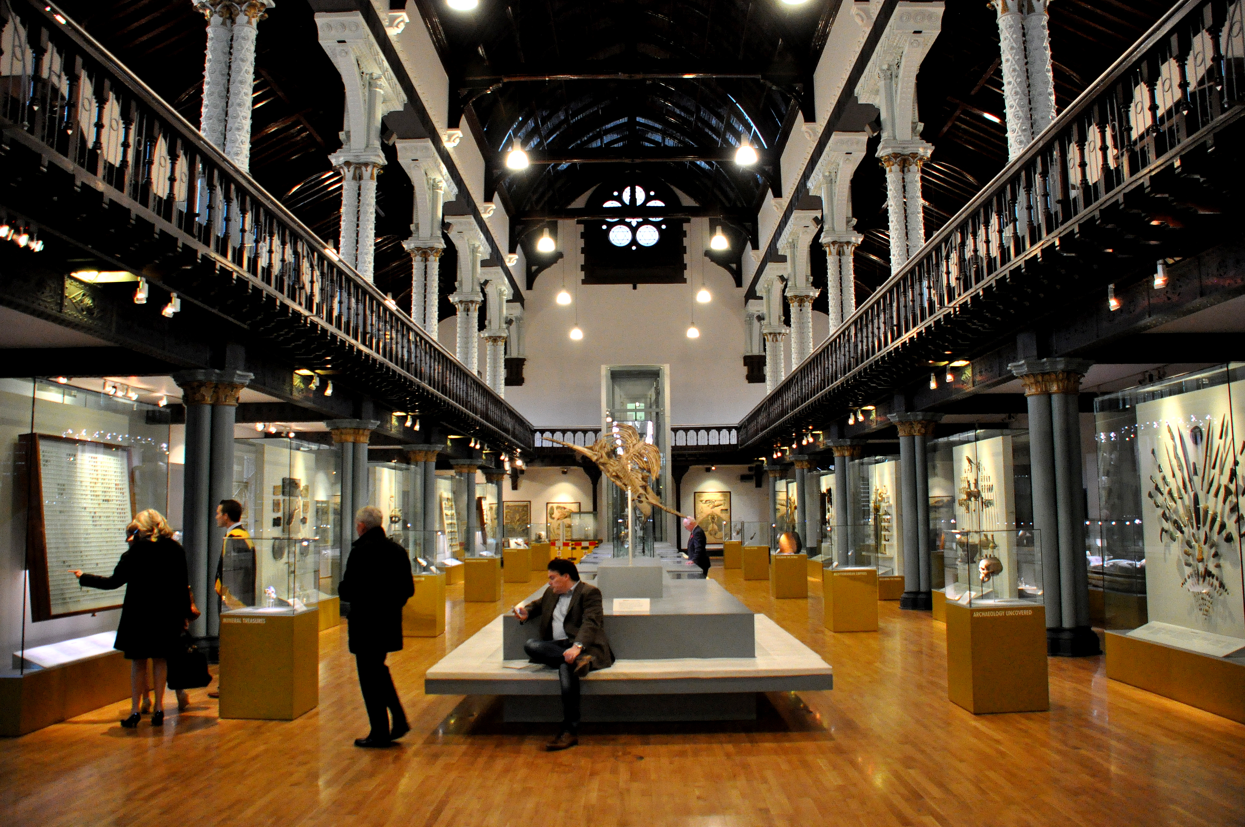 This is the main hall of the Hunterian Museum at the University of Glasgow, Scotland. UK.